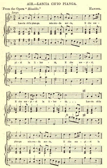 Score of the opening of George Friedrich Handel's aria Lascia ch'io pianga from the 1711 opera Rinaldo